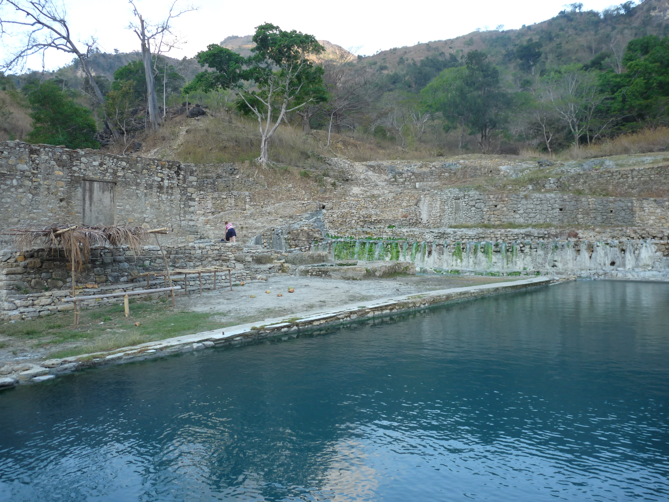 Marobo hot springs, Bobonaro, East Timor